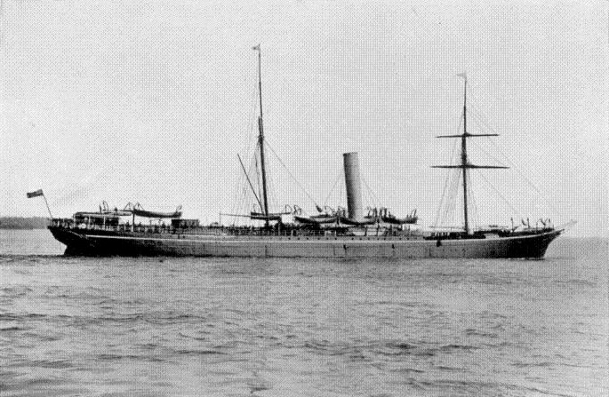 SS Nubian, built in 1876, later lengthened (pictured), wrecked off Lisbon in 1892